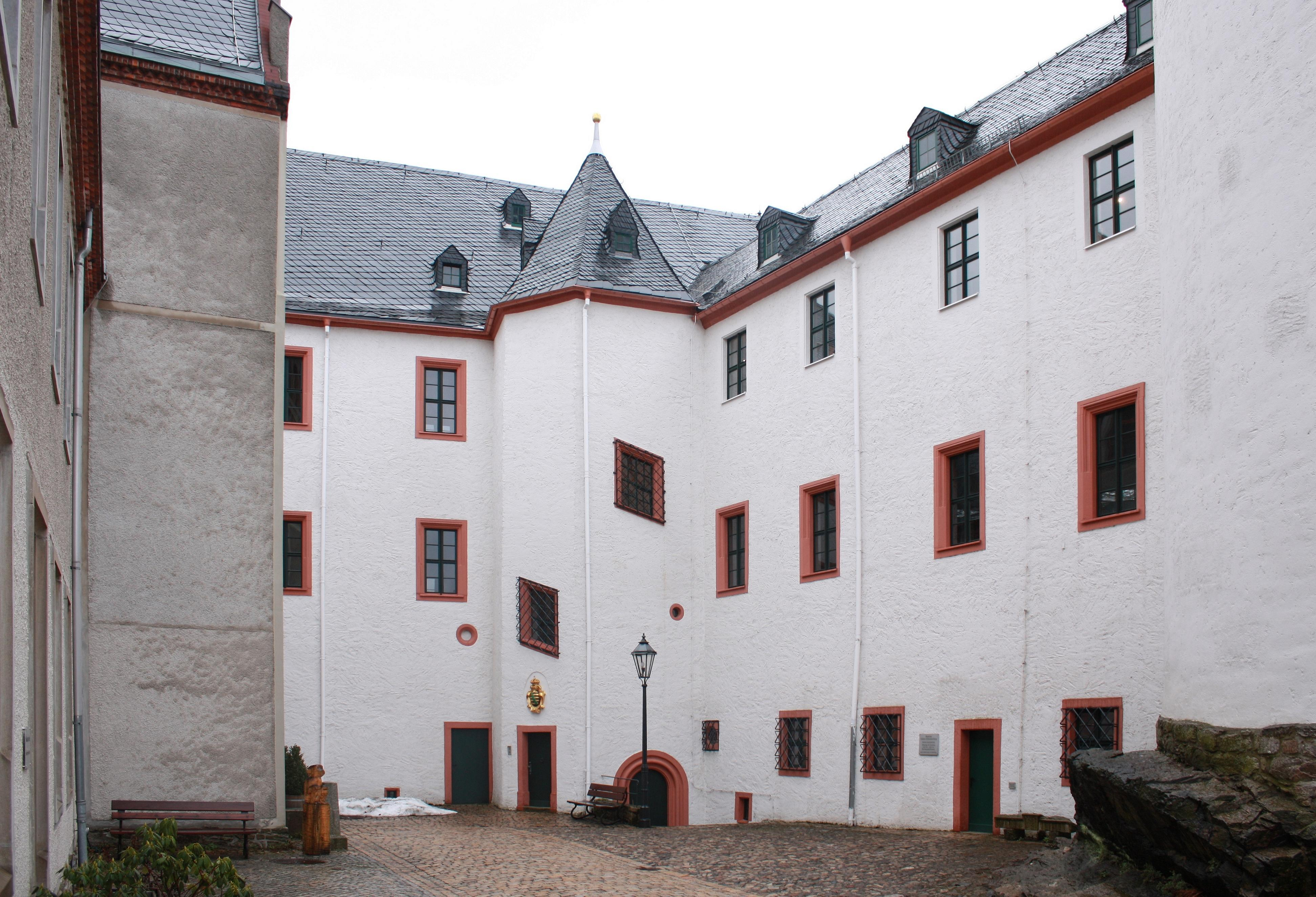 Schloss Schwarzenberg